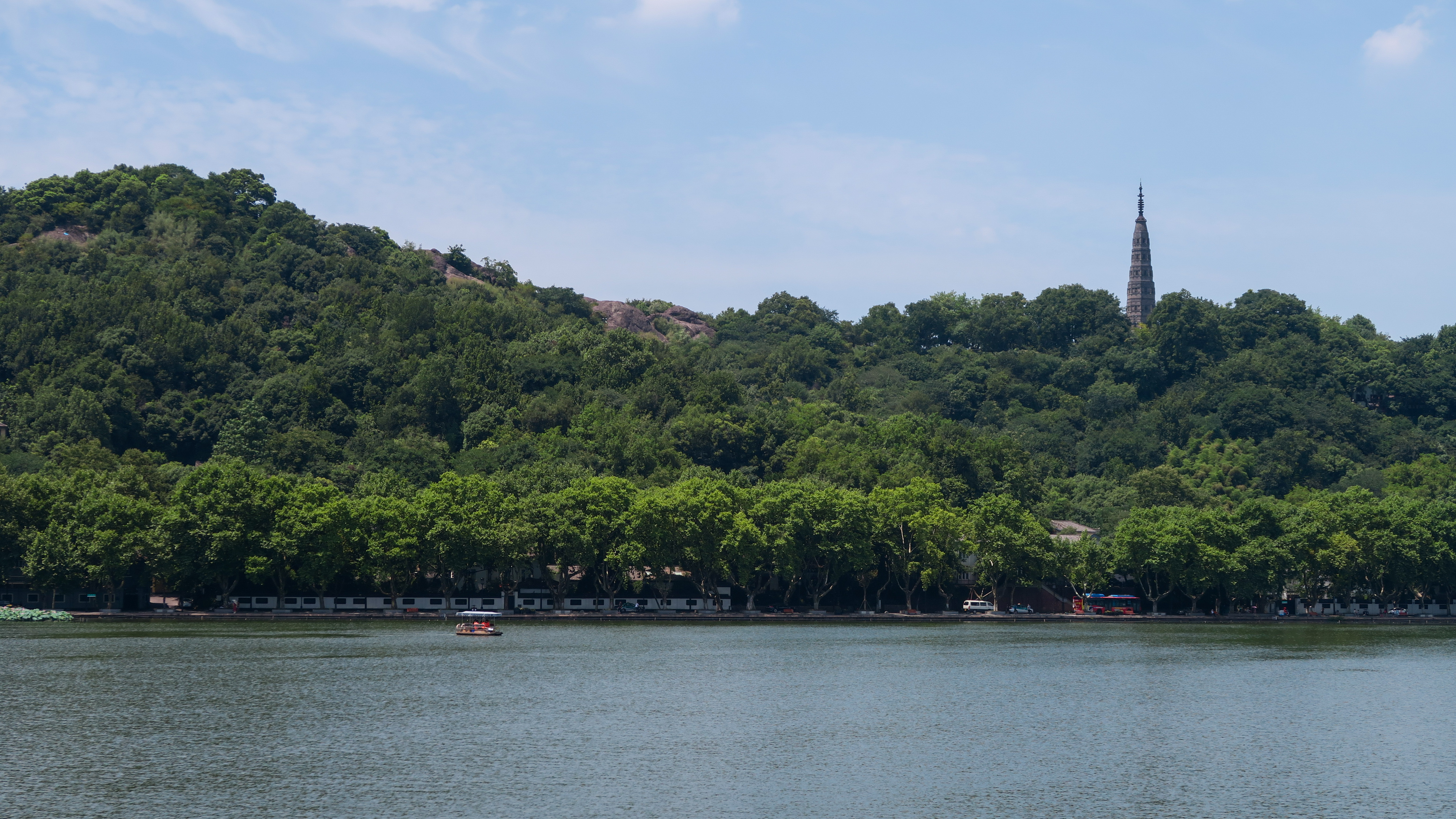 West Lake, Hangzhou: Baoshi Hill, Baochu Pagoda